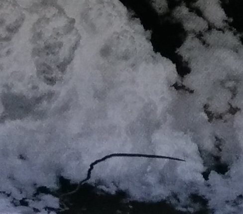 On a 1966 mission, U-2 pilot Renliang Spike Chuang of Black Cat Squadron(35th Sq.) of ROCAF saw through the monitor this Surface-to-Air missile, like a telephone pole, approached. He would evade three chineses missiles that lucky day.